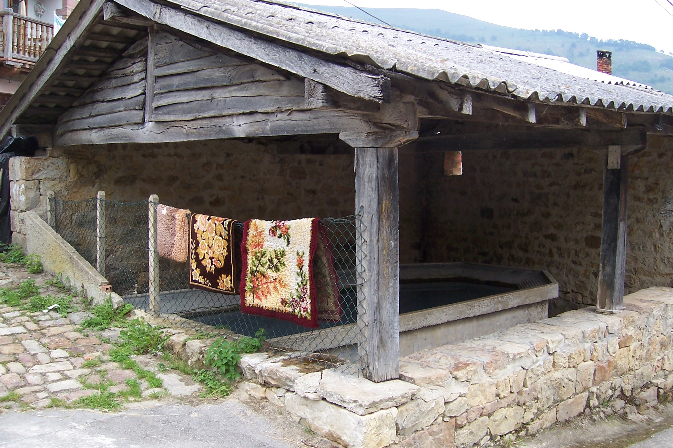 Public laundry in San Sebastián de Garabandal, Cantabria (Spain)